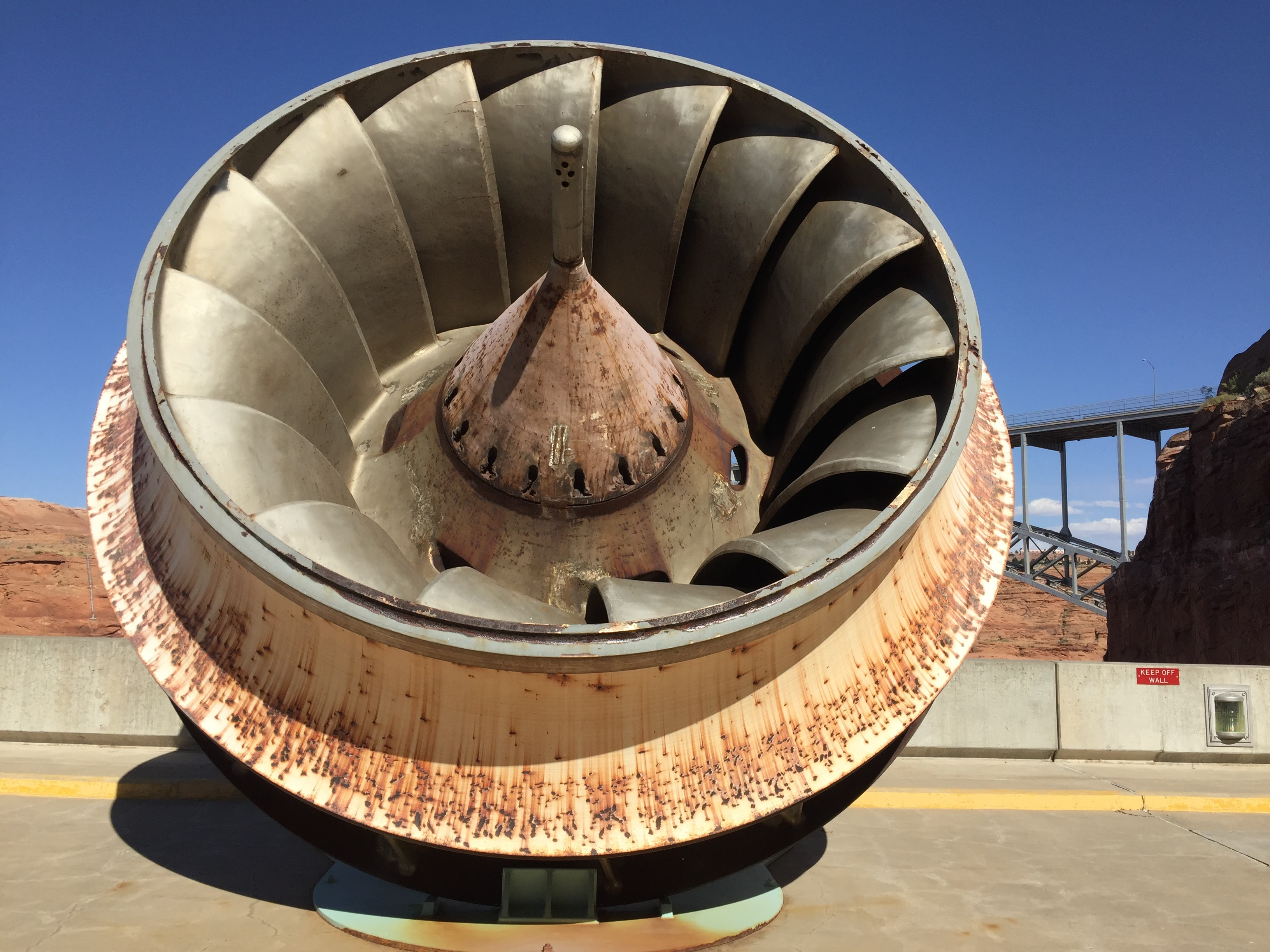 An old impeller at the Glen Canyon Dam